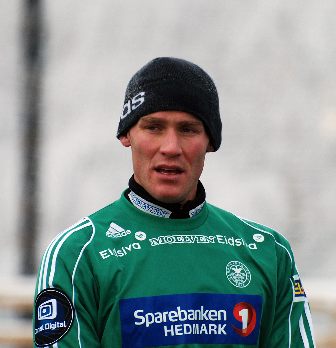 Frode Bjørnevik, HamKam - Notodden, HIAS-banen in Stange, Hedmark, Norway